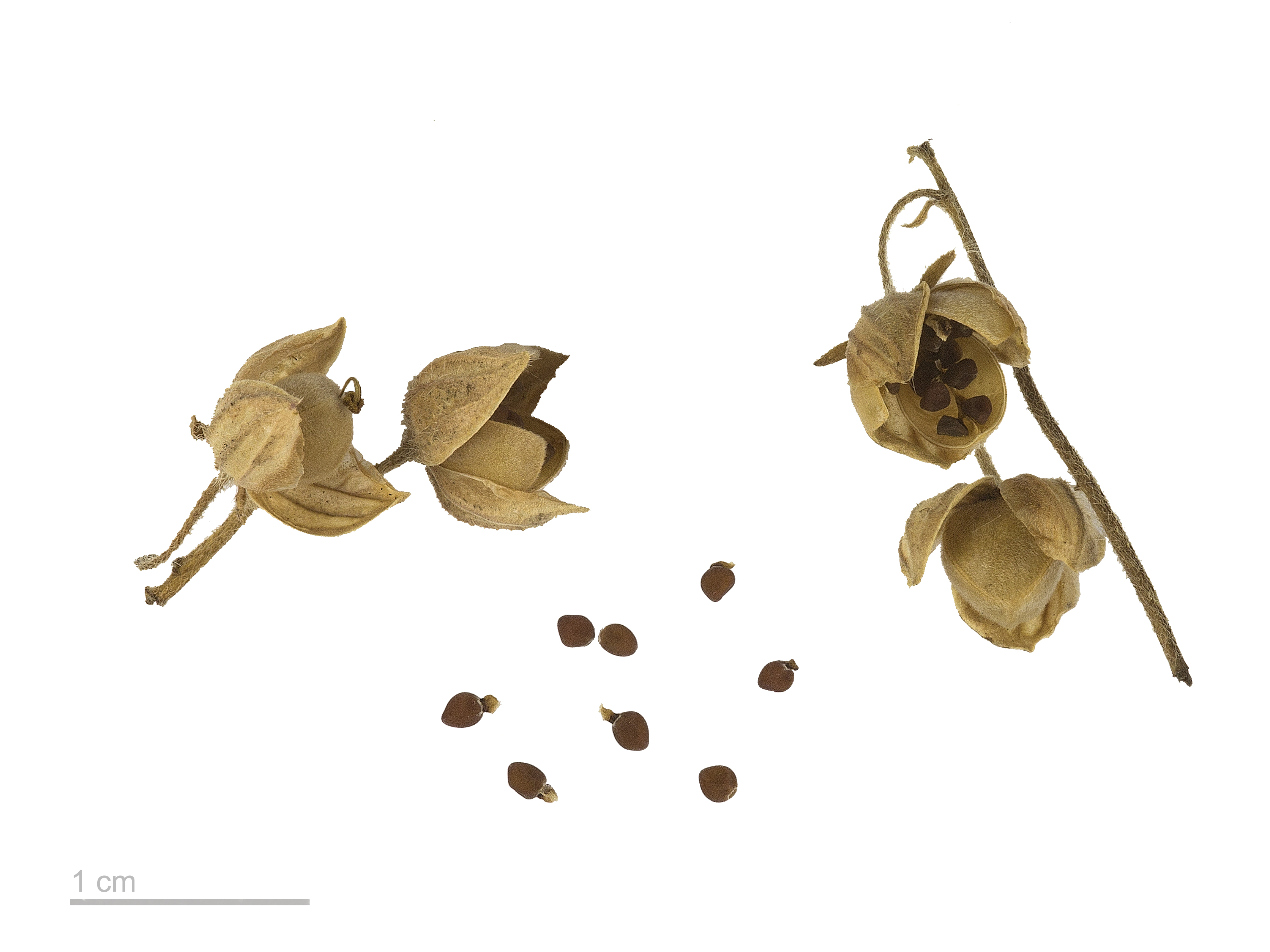 common rock-rose , fruits and seeds